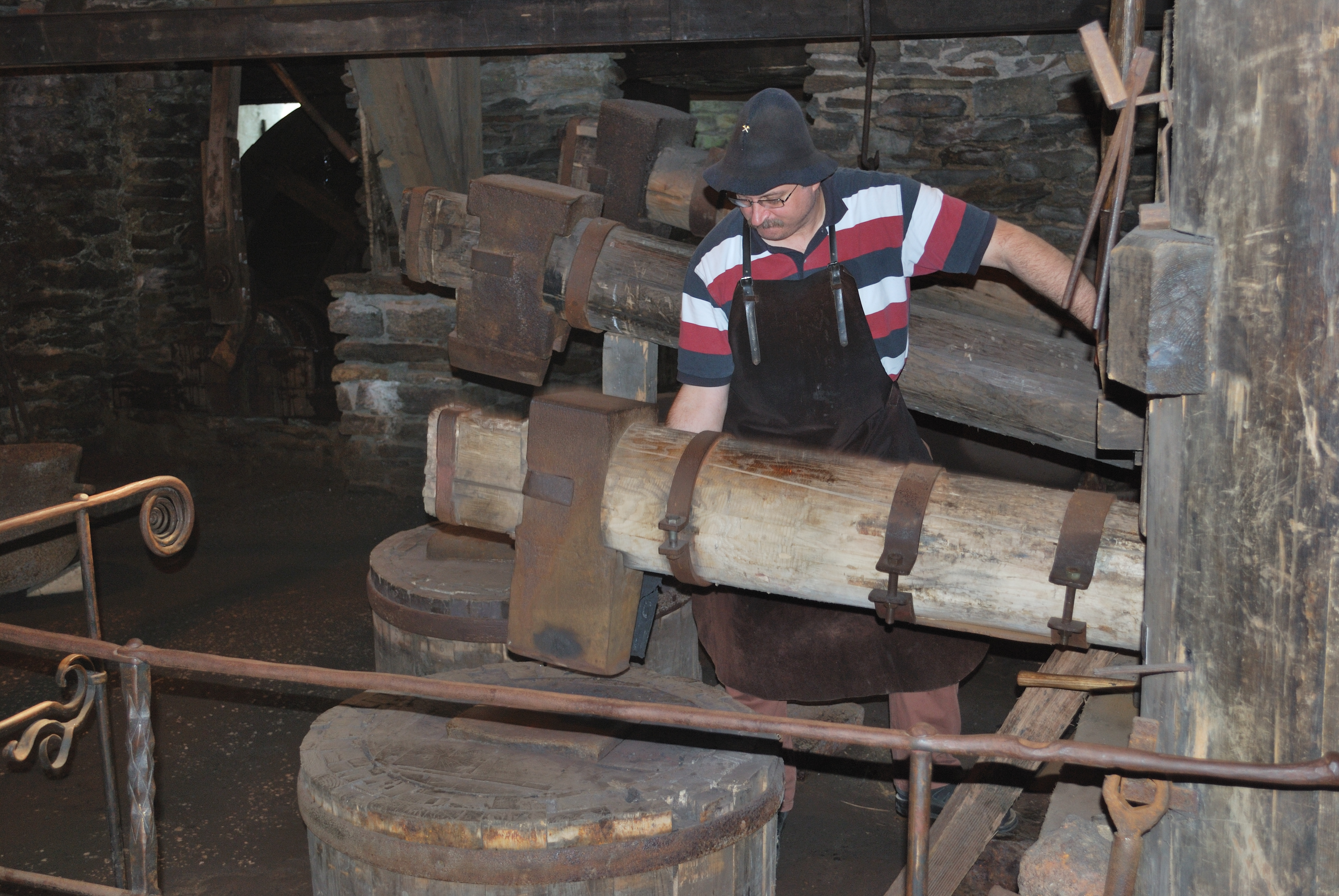 The historical hammer mill Frohnauer Hammer in Annaberg-Buchholz in Saxony, Germany.